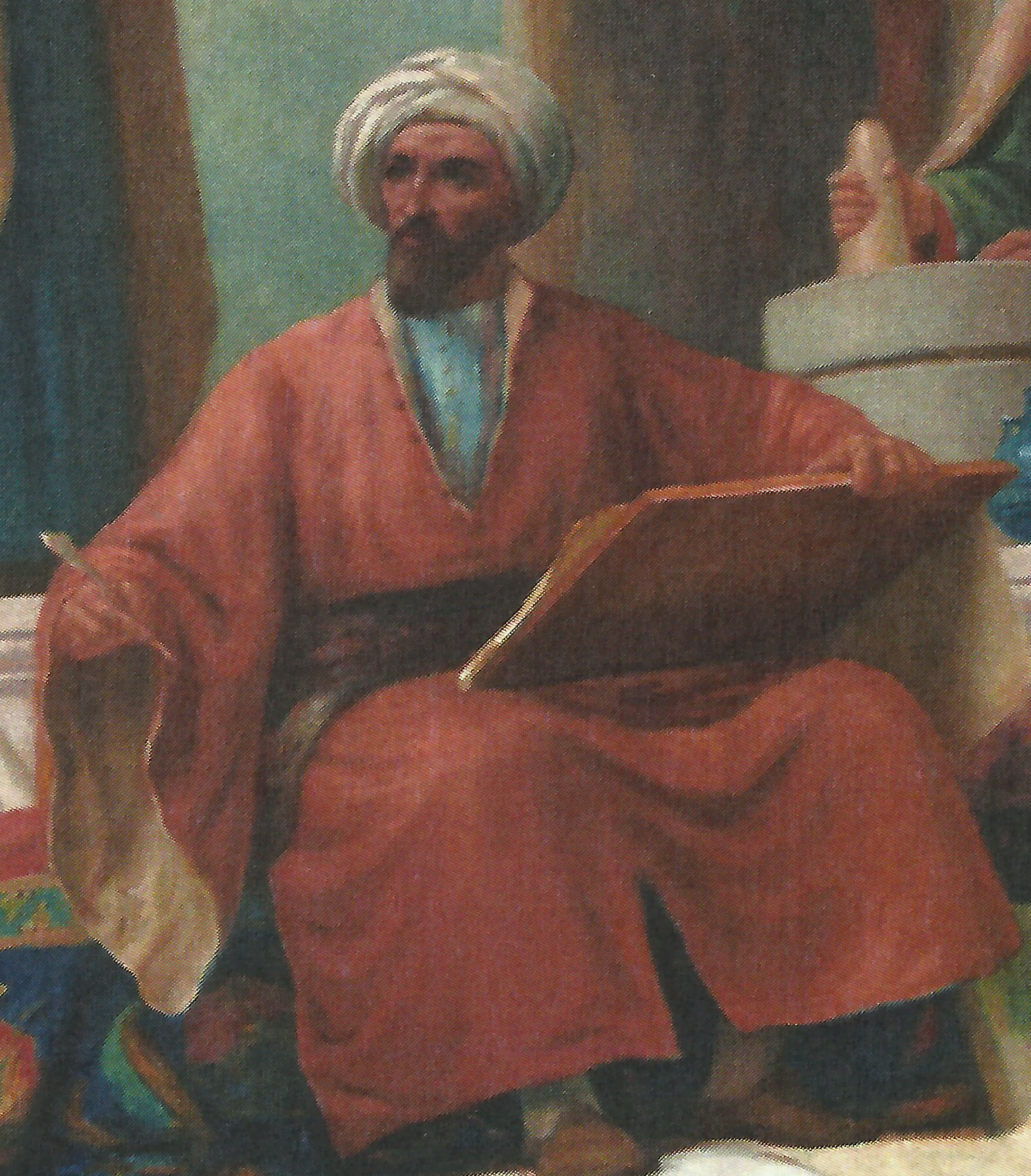 "Arabic Medicine" (c. 1906), by Veloso Salgado